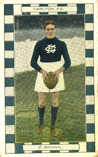 Cigarette card of Ted Brown dated 1914–1920